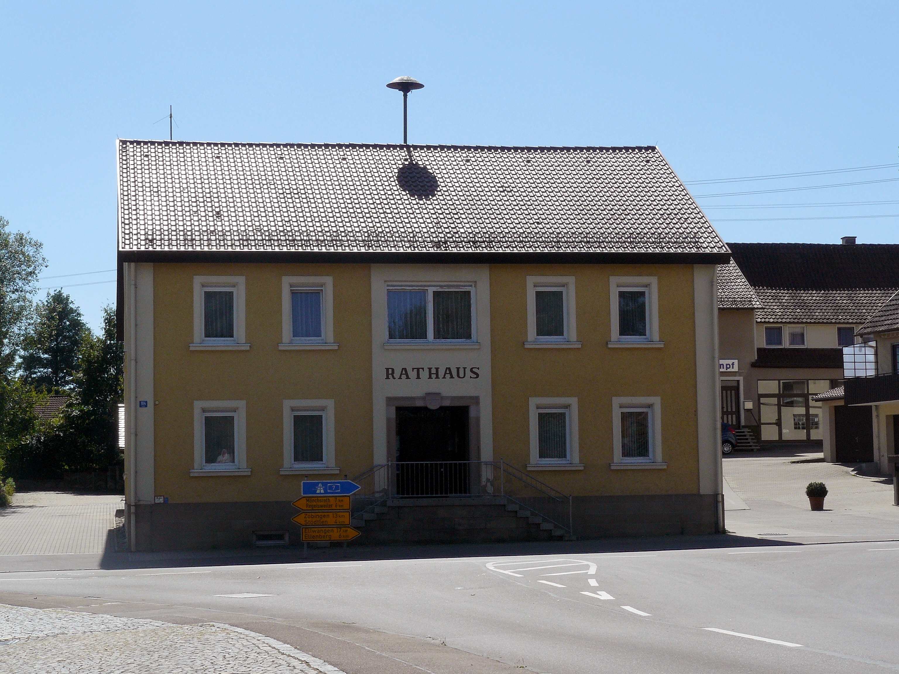 Town hall in Wört, Germany